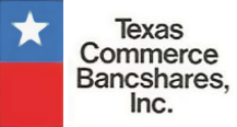 Texas Commerce Bancshares Inc. logo Texas Commerce Bank. This logo is no longer in use by its current owner JPMorgan Chase